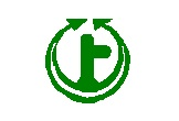 Flag of Agematsu Nagano